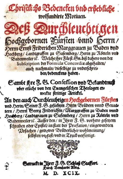 Book of Staffort - the Calvinistic Creed of Markgrave Ernst Friedrich of Baden-Durlach